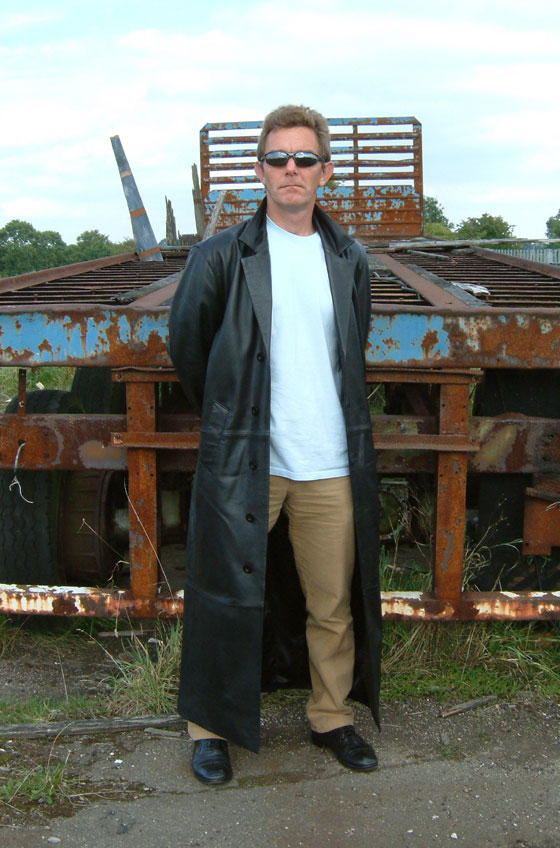 A modern style of trench coat, similar to a duster.